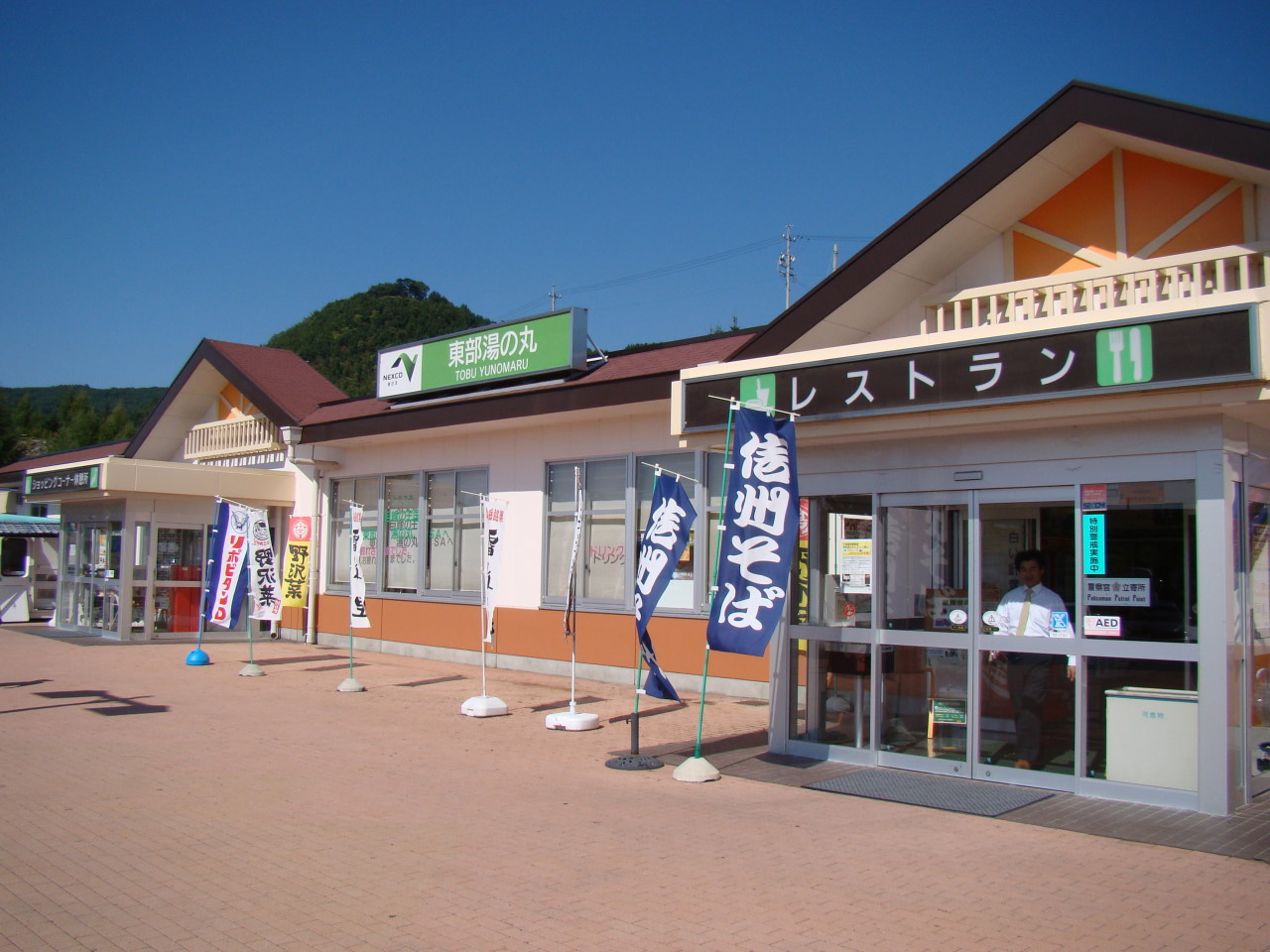 Joshin-etsu expressway Tobuyunomaru sercive area Fujioka side Nagano Japan